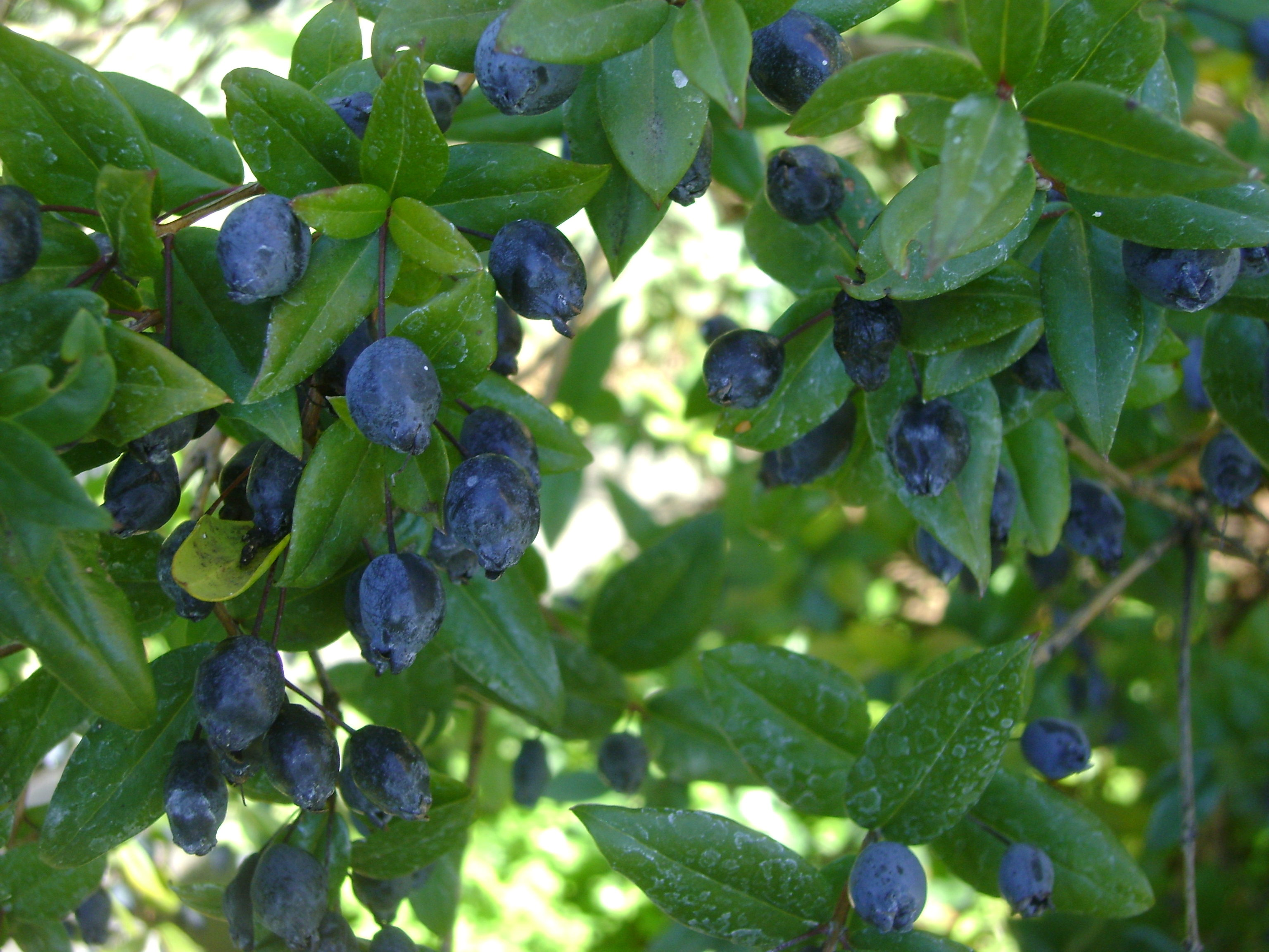 Blue ripe myrtle berries from Macomer, Sardinia, about to be picked up to prepare the liqueur